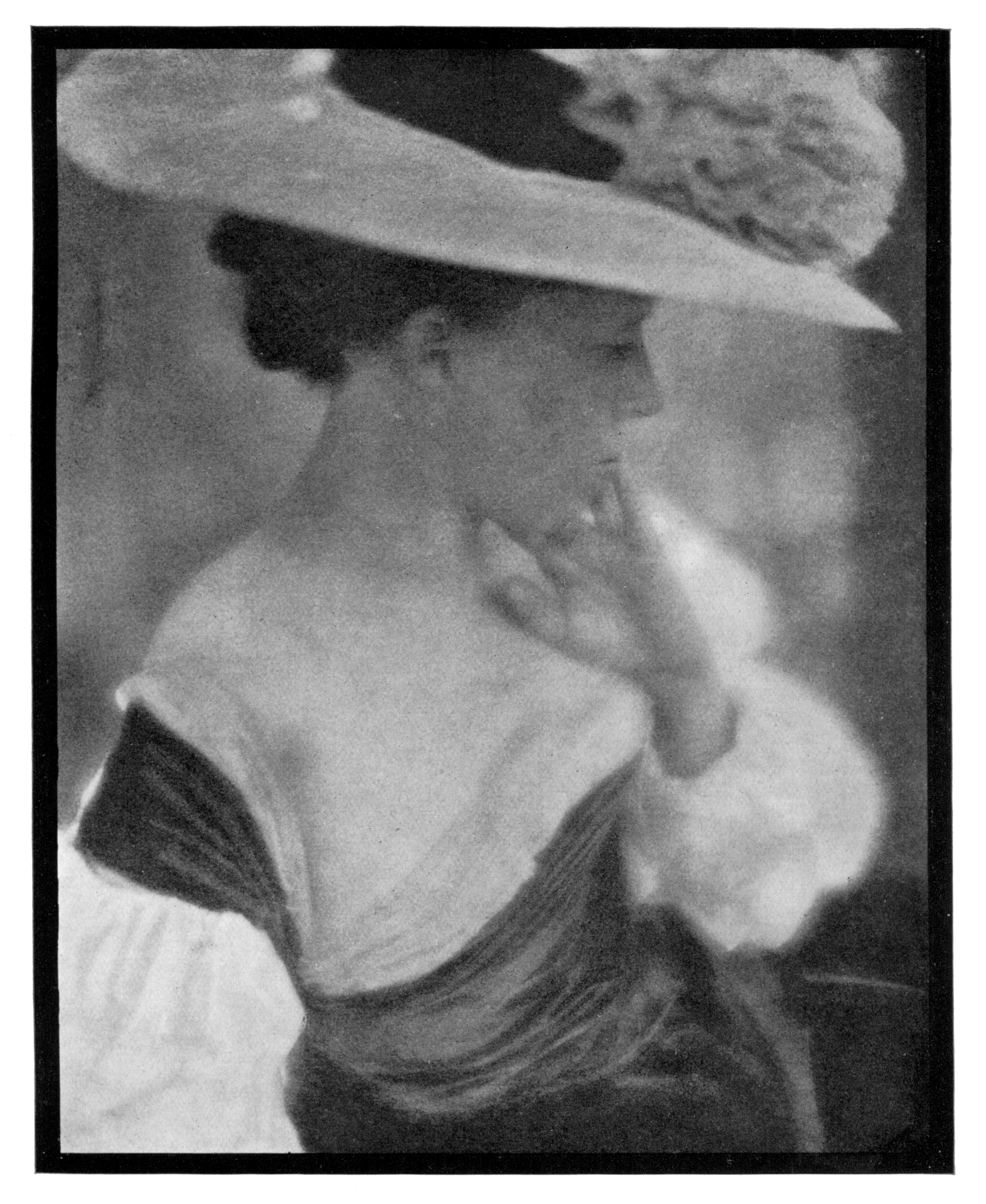 Portrait of Mrs. White by Clarence H. White